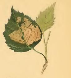 Stainton’s Natural History of the Tineina (1855–1873): Swammerdamia caesiella gnawed birch leaves